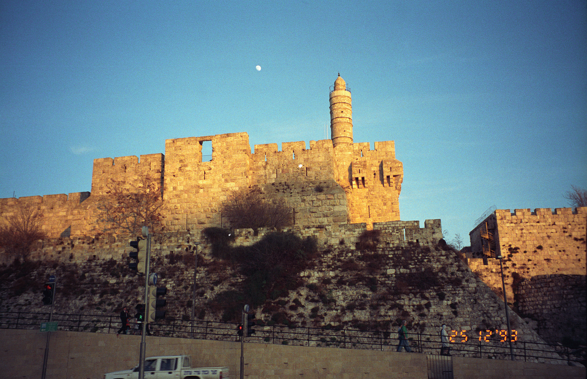 The Walls of Old City of Jerusalem